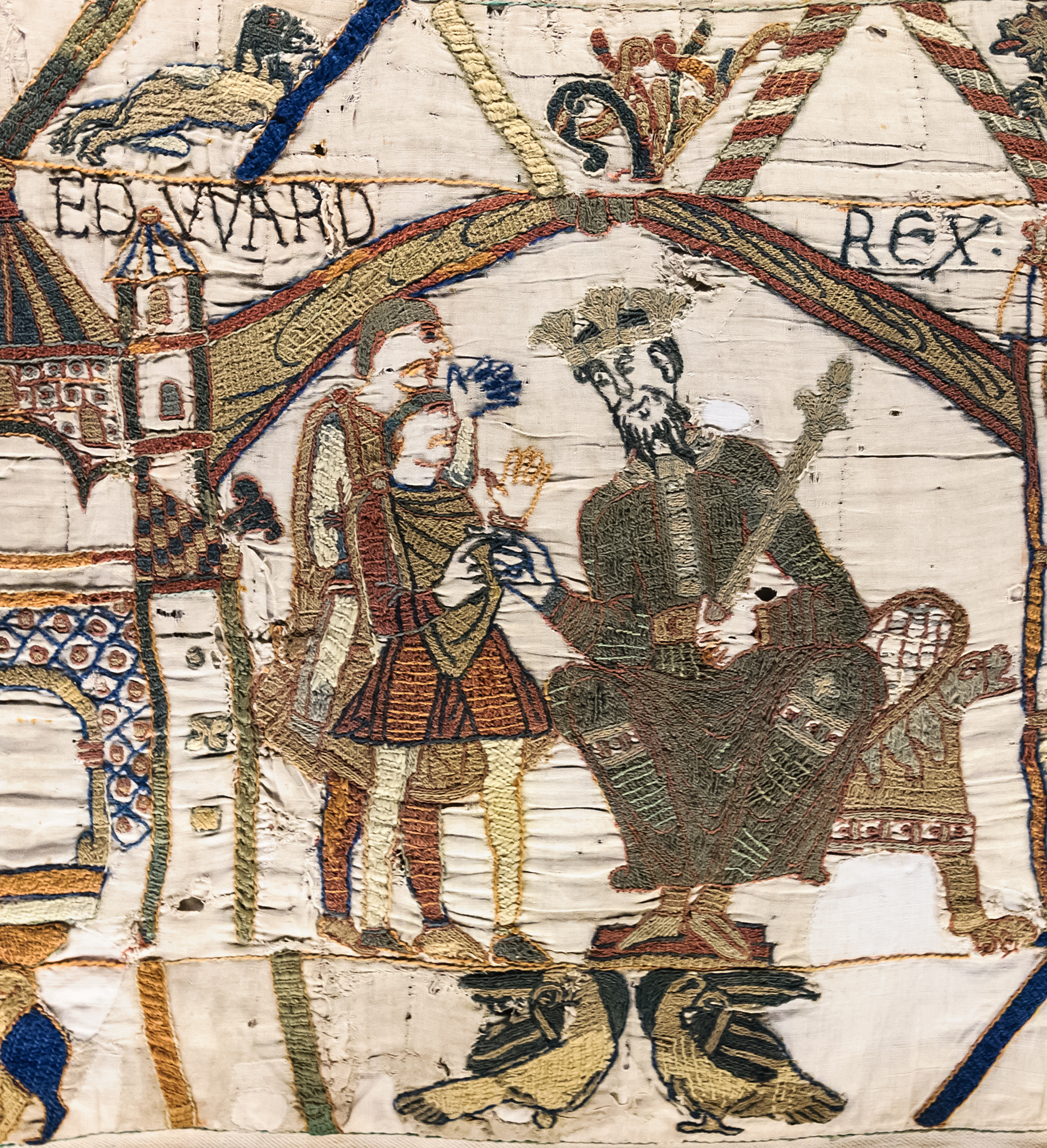 Bayeux Tapestry - Scene 1 : King Edward the Confessor and Harold Godwinson at Winchester.